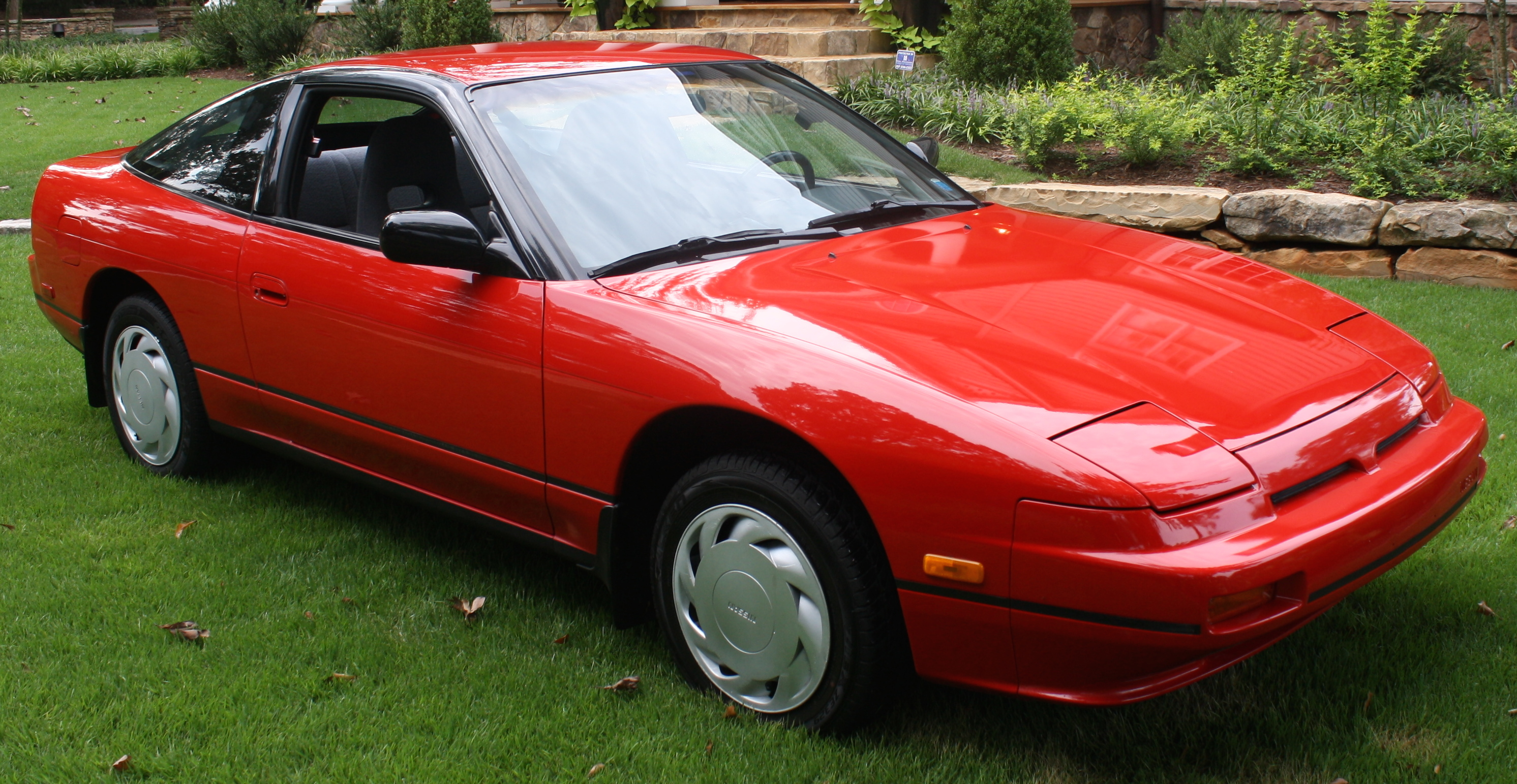 1990 Nissan 240sx, with SE trim. Photographed in Athens, Georgia